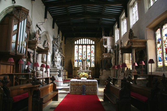 St.Mary's chancel More famous for its monuments than architecture, the incredible chancel of St.Mary's church .... full of tombs, mainly for the Earls of Rutland